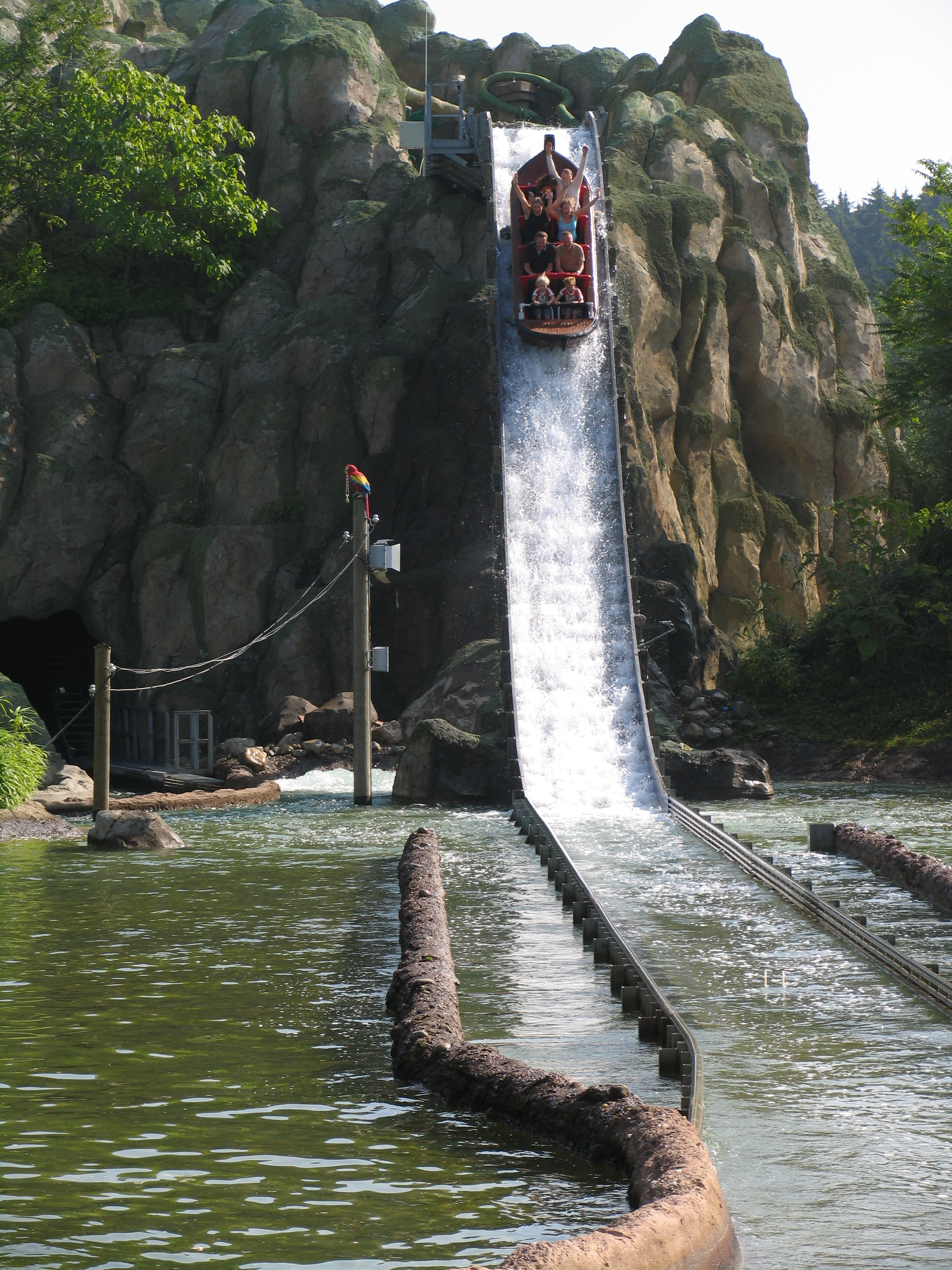 Flume Ride at Legoland, Germany